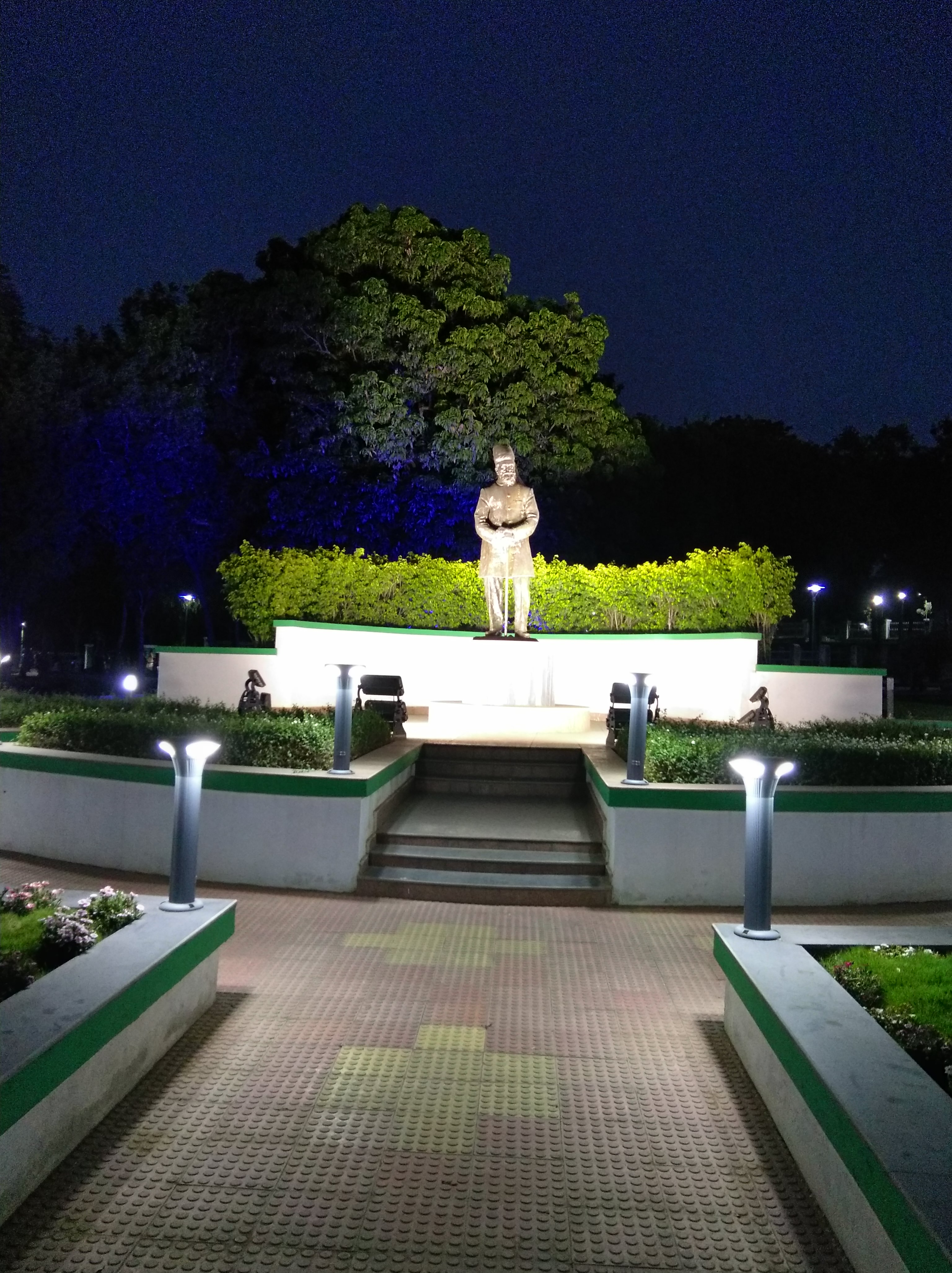 Statue of JRD Tata inside the park premises